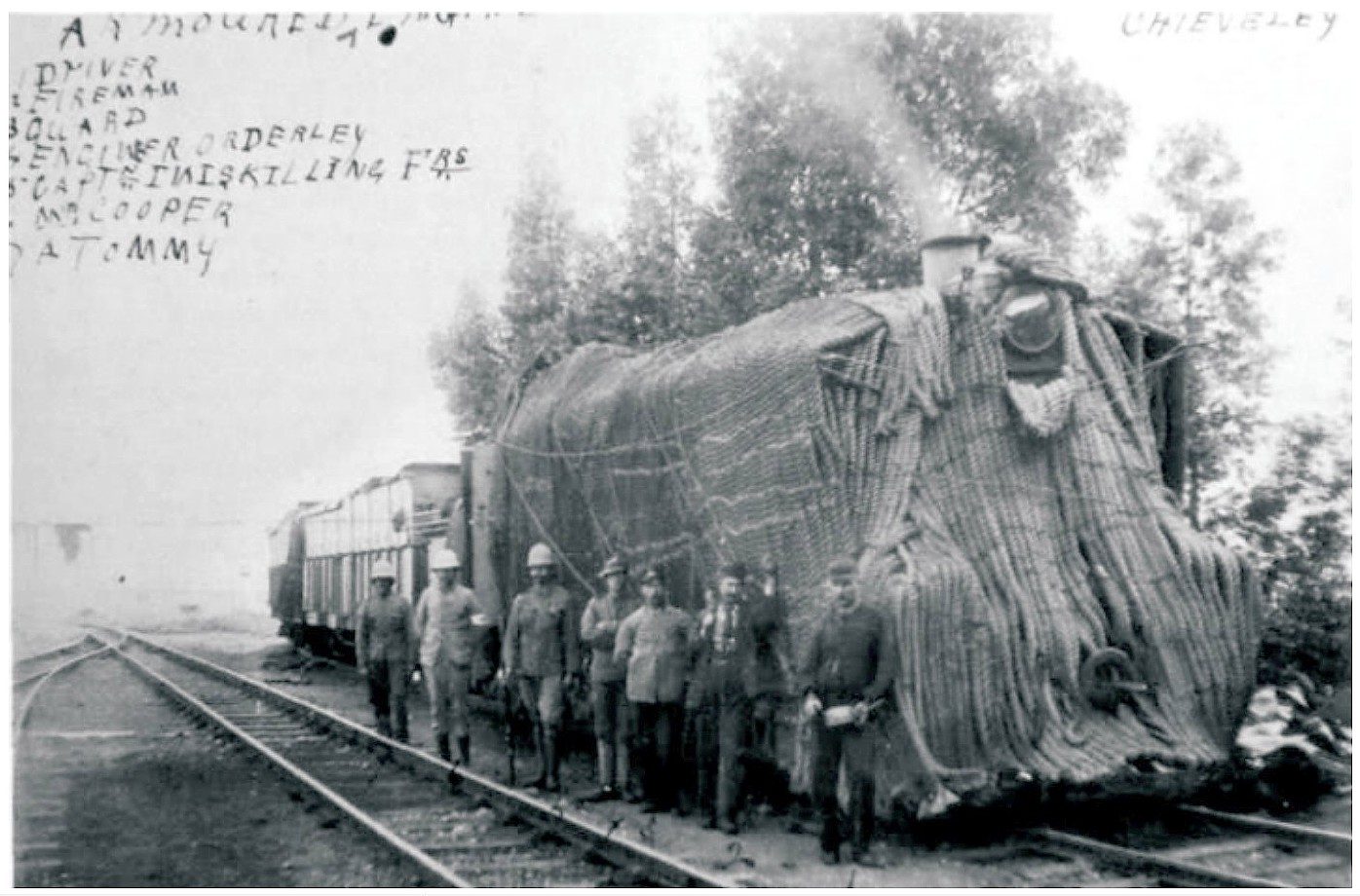 Natal Government Railways 4-6-2TT no. 48 “Havelock” disguised as Hairy Mary during the Boer War